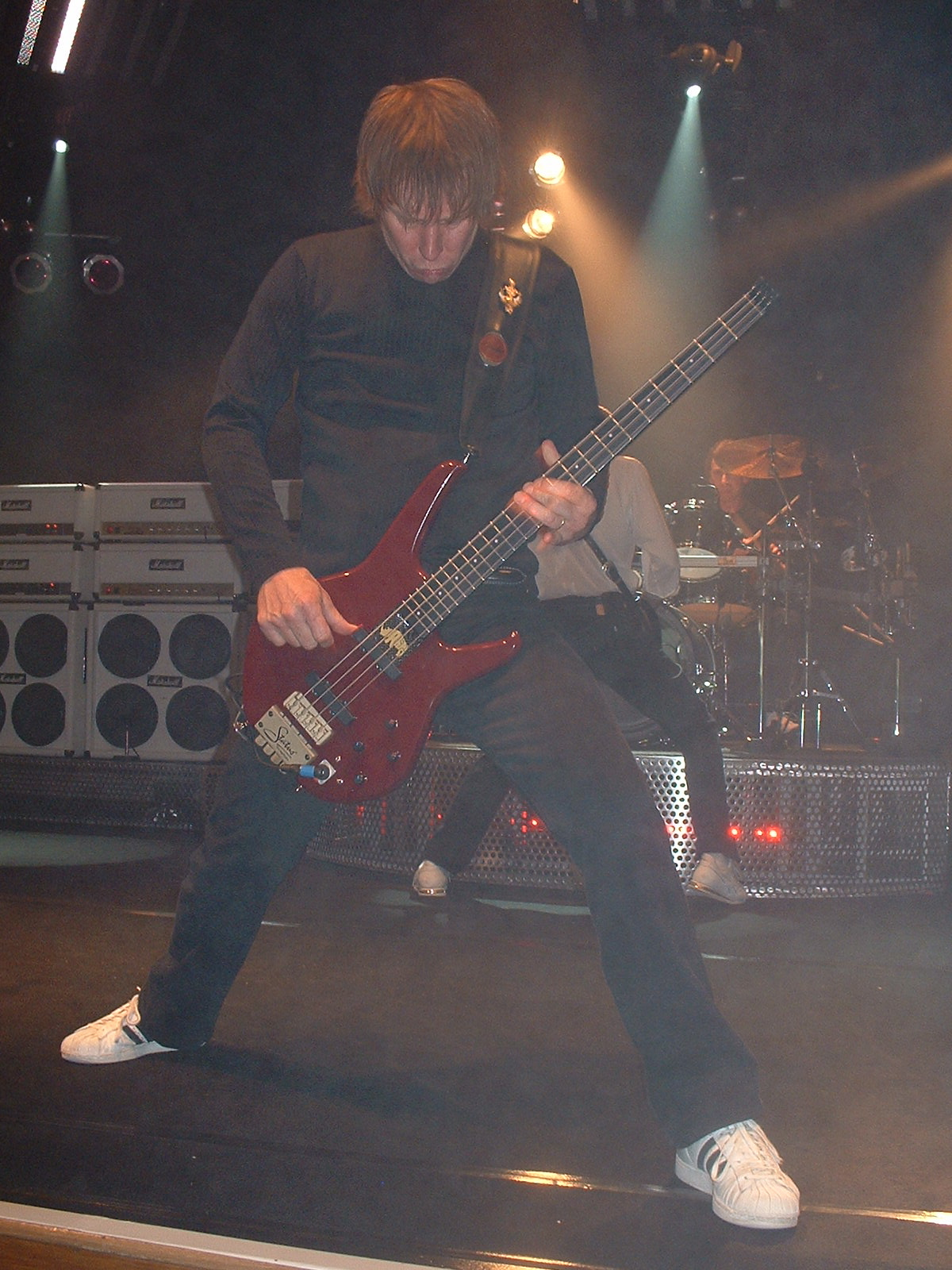 Rhino on stage with Status Quo in Bristol